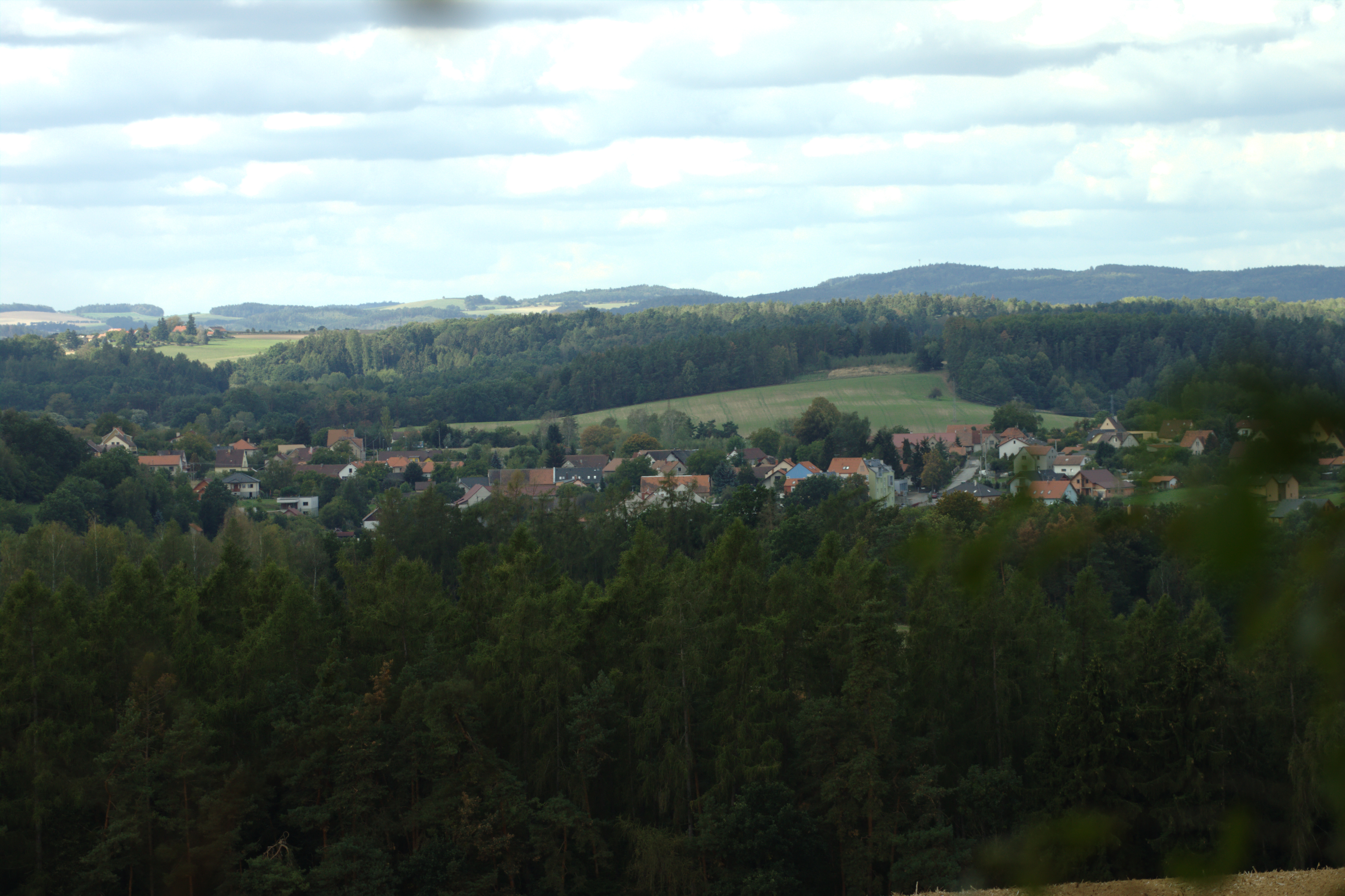 View of the village of Mrač from Mezihoří, Central Bohemia, CZ